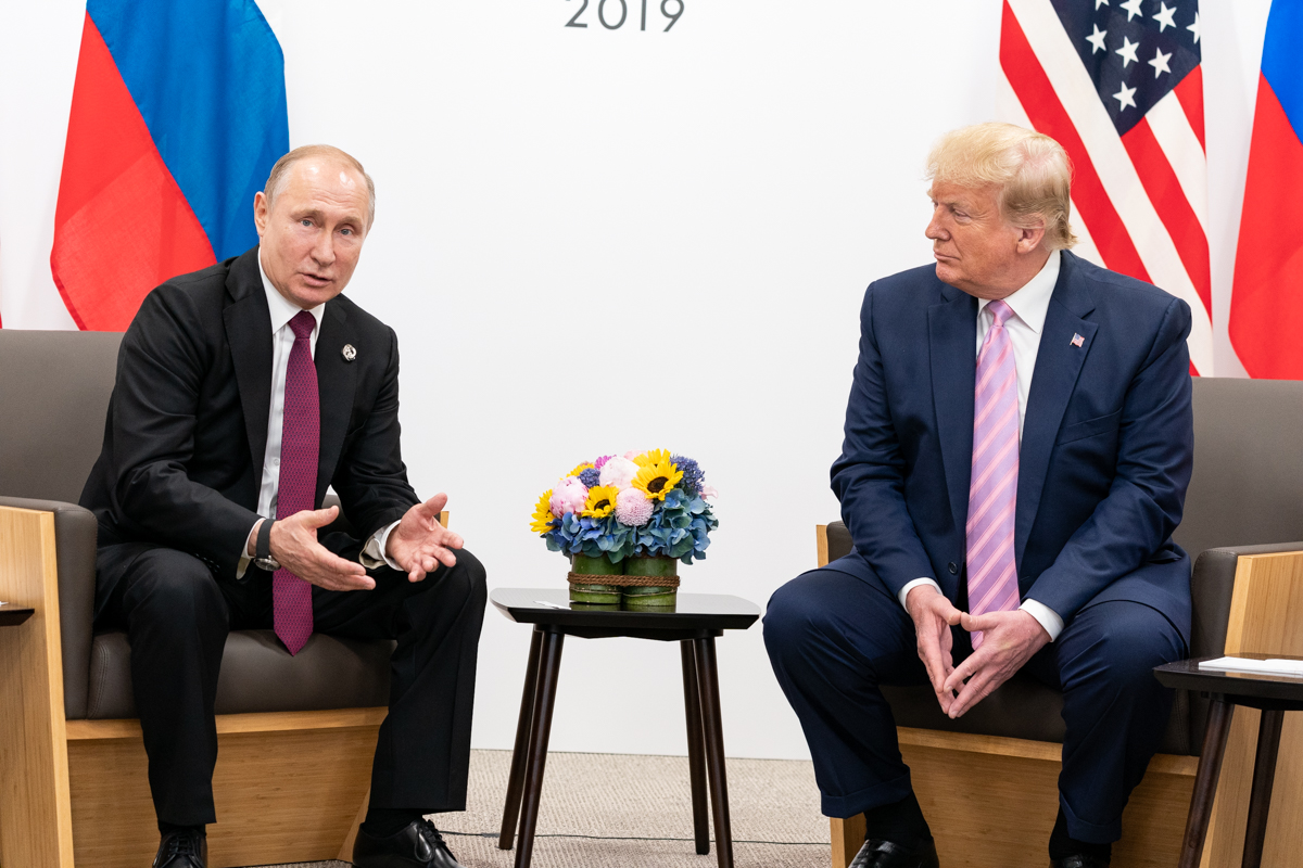 President Donald J. Trump participates in a bilateral meeting with the President of the Russian Federation Vladimir Putin during the G20 Japan Summit Friday, June 28, 2019, in Osaka, Japan. (Official White House Photo by Shealah Craighead)